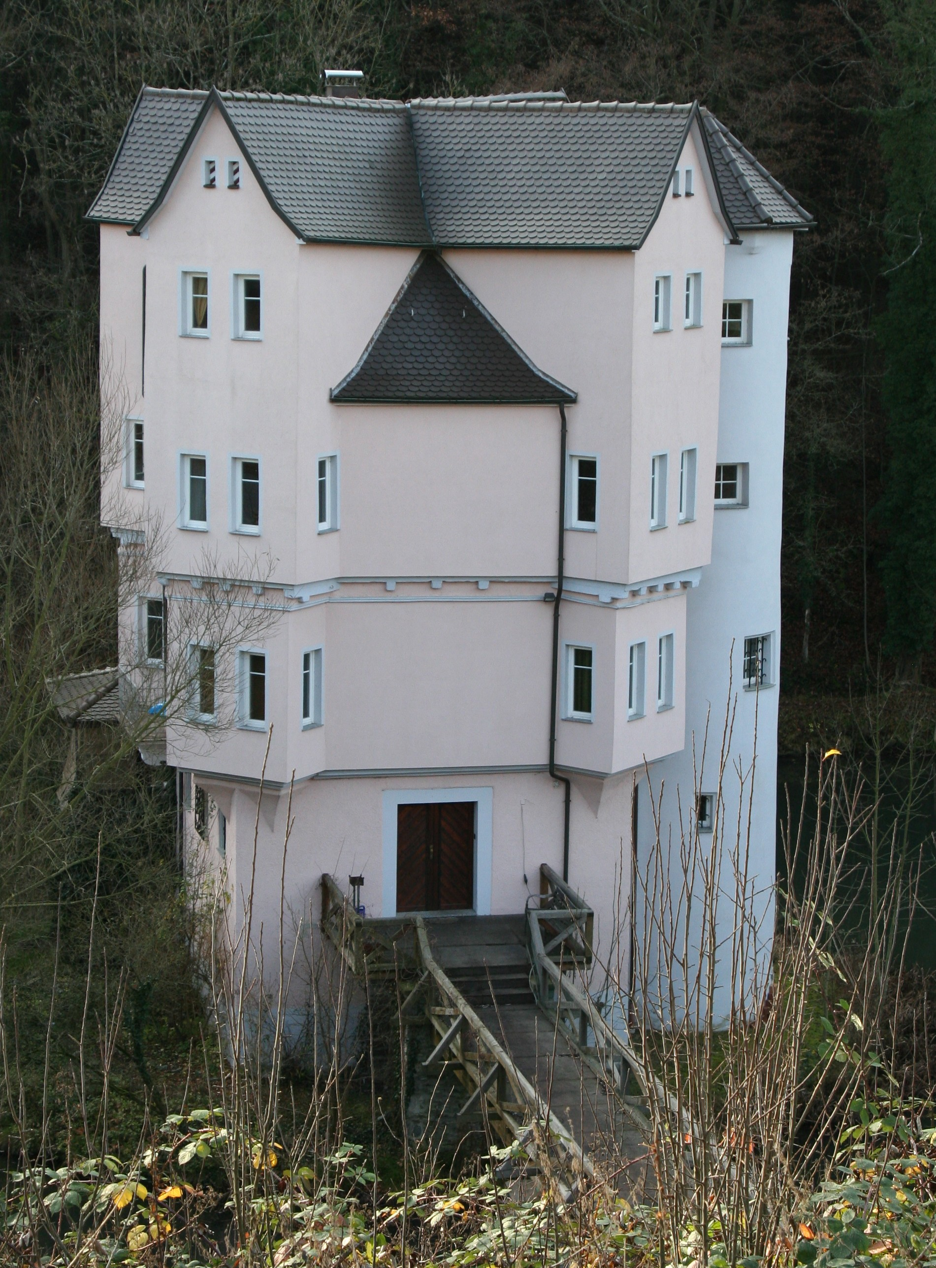 Lautereck castle in Löwenstein